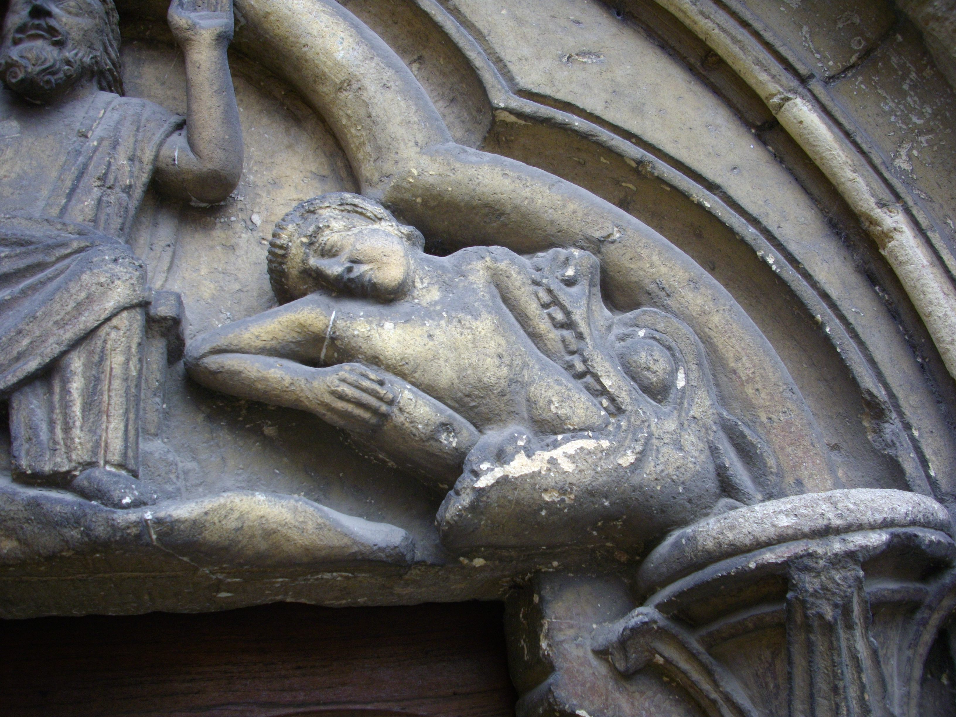 Saint Stephen collegiate church of Gorze (Moselle, France). Tympanum of the north-eastern portal : Last Judgement ? .